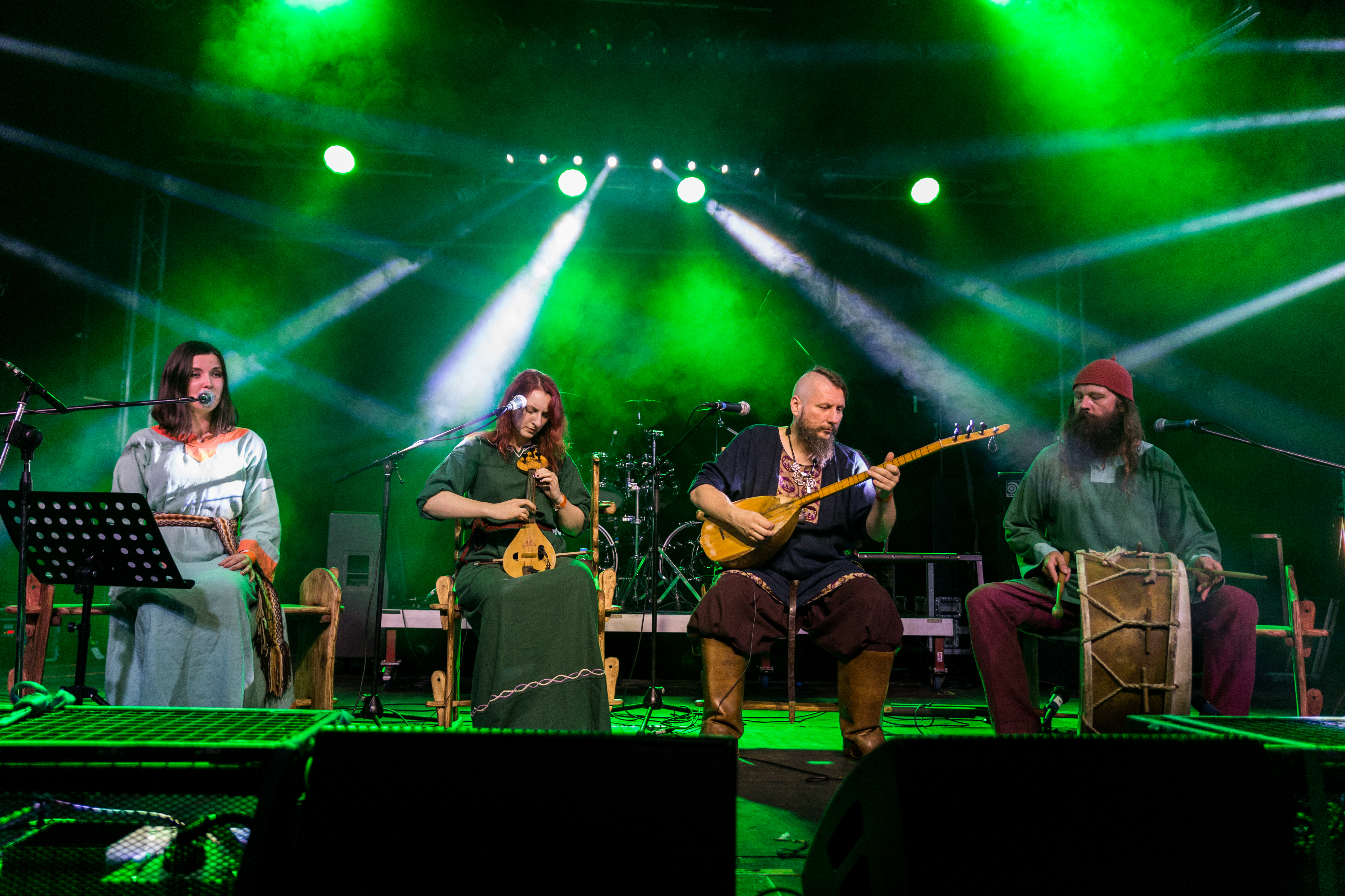 The Polish folk band Percival at the Wave-Gotik-Treffen 2017 in Leipzig/Germany (Venue Felsenkeller).